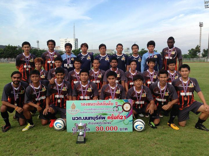 Mor Wor Kor Royal cup